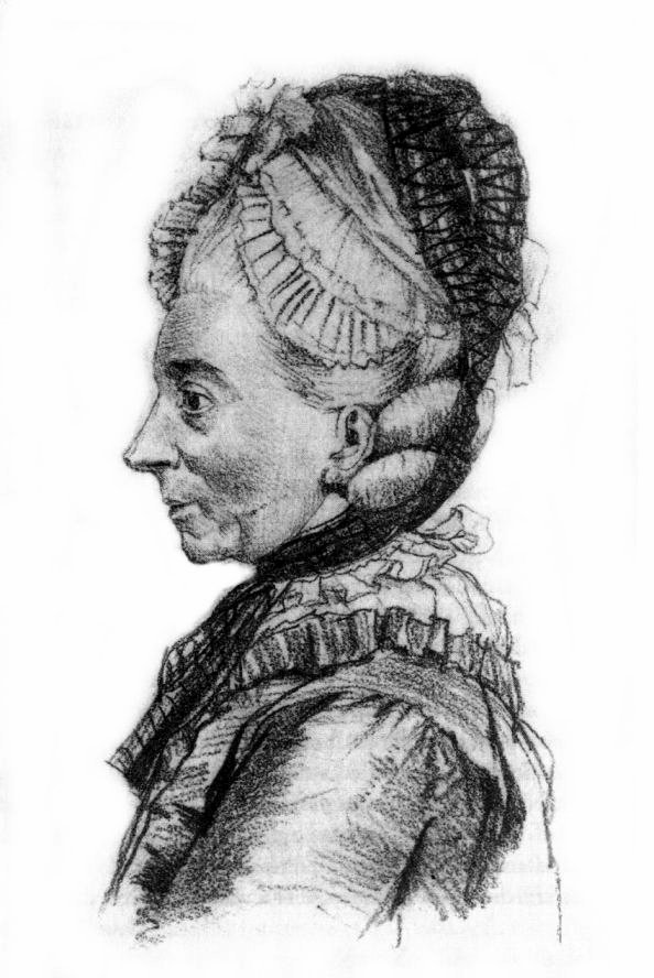 Amalie, Princess of Prussia, (1723-1787). Pencil drawing by Adolph von Menzel (December 8, 1815 – February 9, 1905) a German artist noted for drawings, etchings, and paintings..